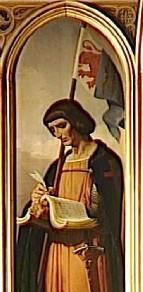 Jean de Joinville, seneschal of Champagne